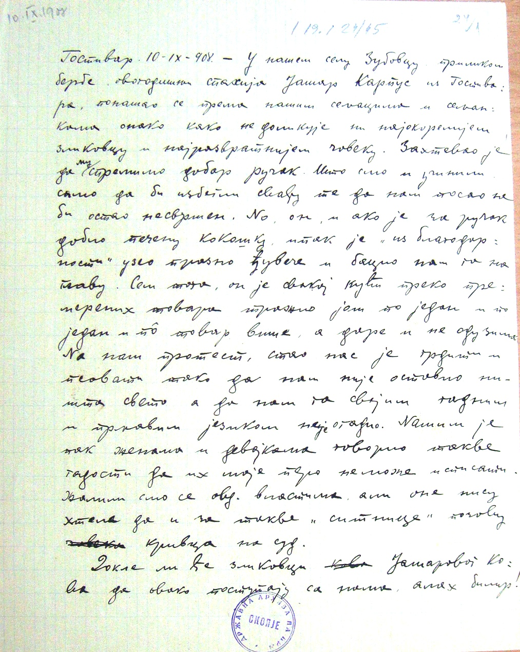 Letter about abusive behavior of landowner Yasar Karpus from Gostivar, of the villagers at the village Zubovec. (Gostivar, September 10, 1908) This media file is produced by Wikipedian in Residence in Category:Wikipedian in Residence at DARM in 2016.